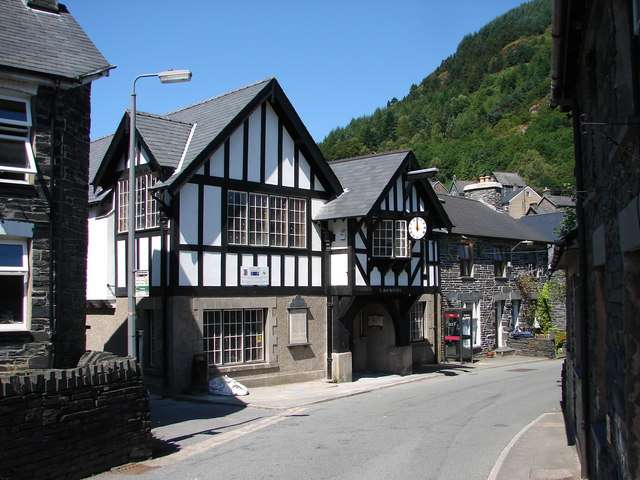 Corris Institute